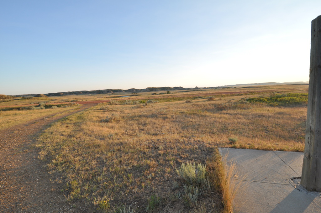 Easy Hill Camp, part of the Custer Military Trail Historic Archaeological District in southwestern North Dakota.